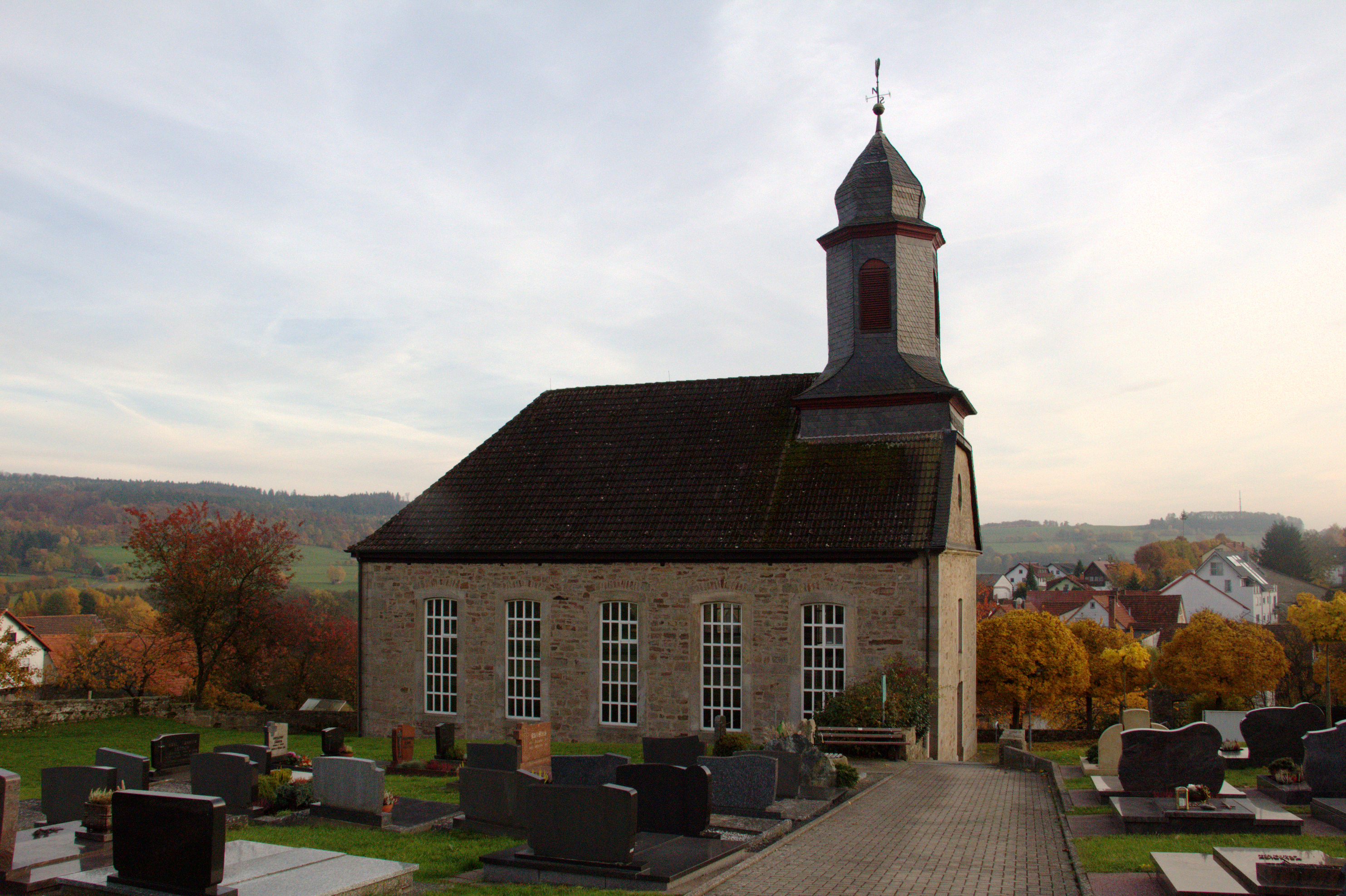 Protestant Church in Heubach, Kalbach, Hesse, Germany